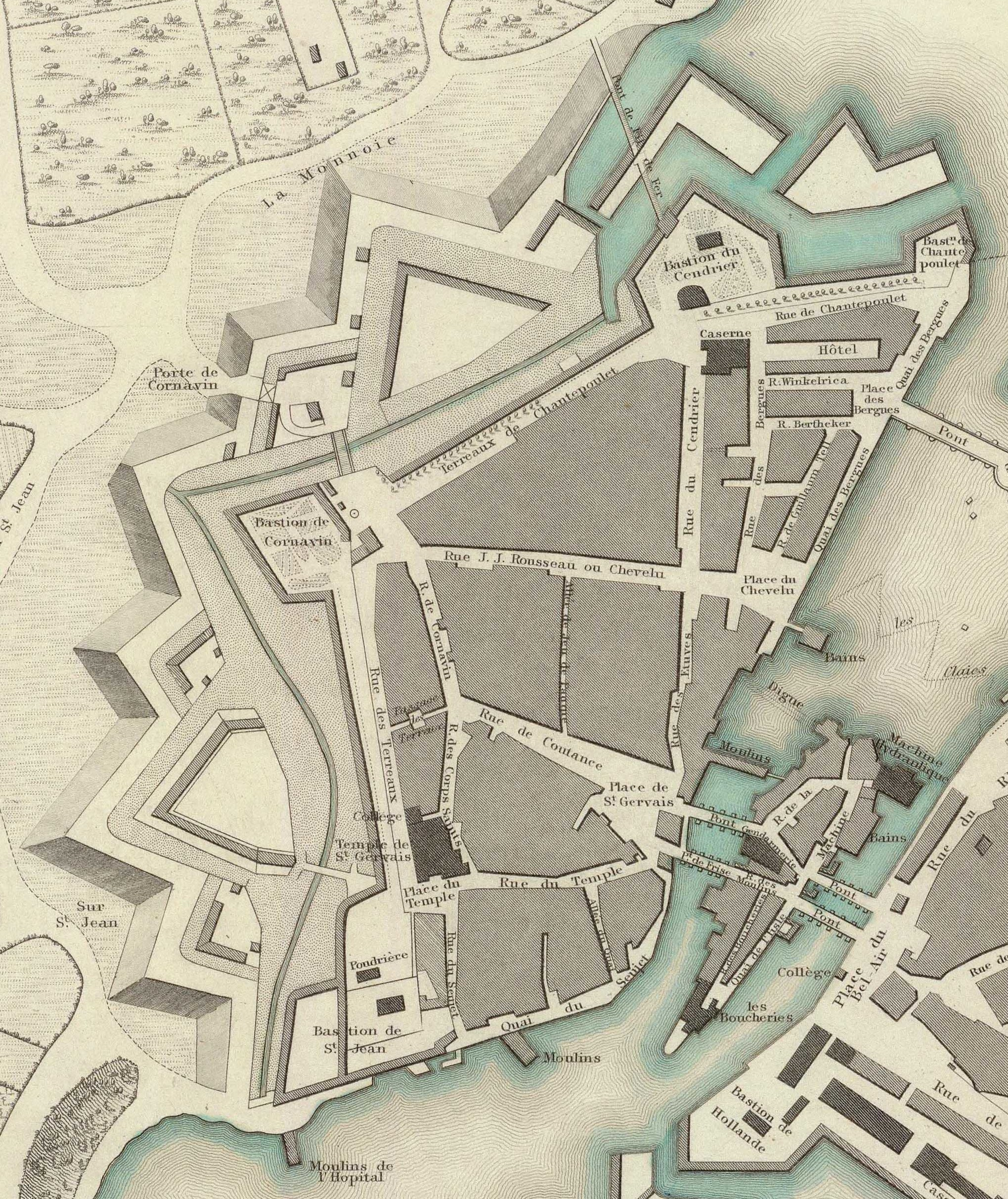 Geneva 1841